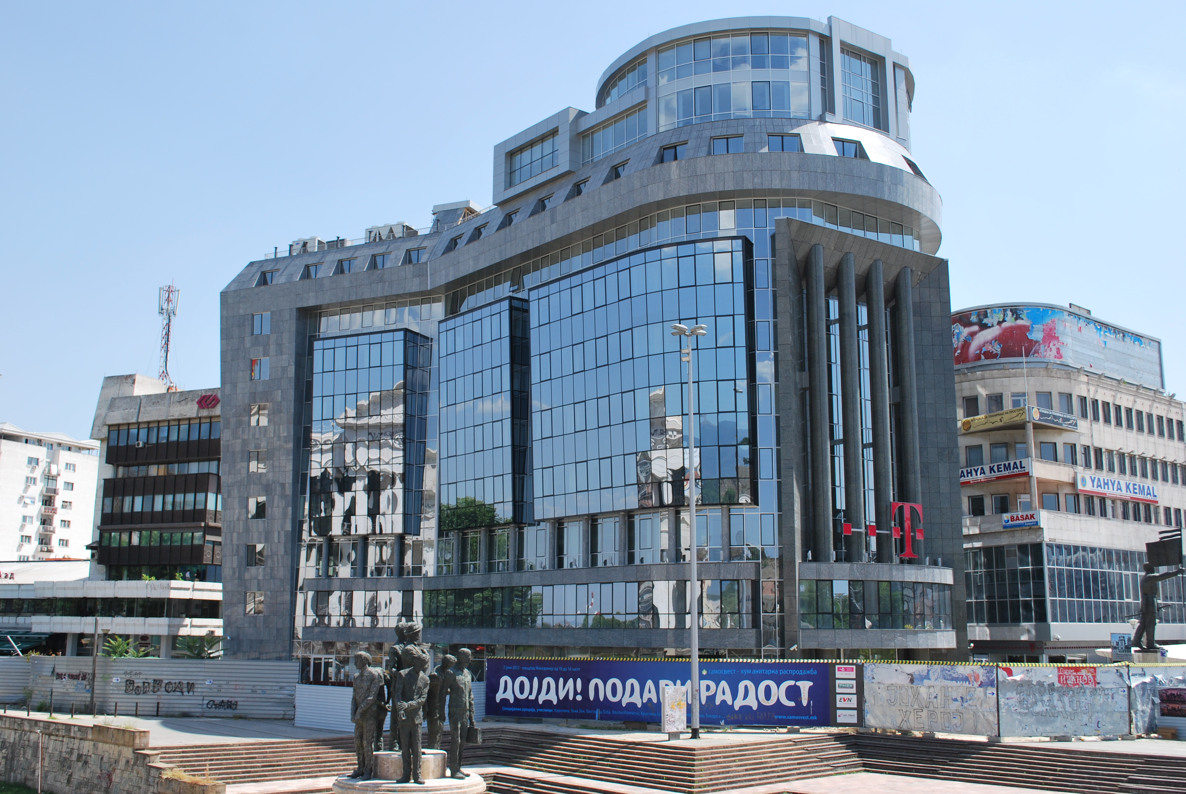 Skopje, Macedonia